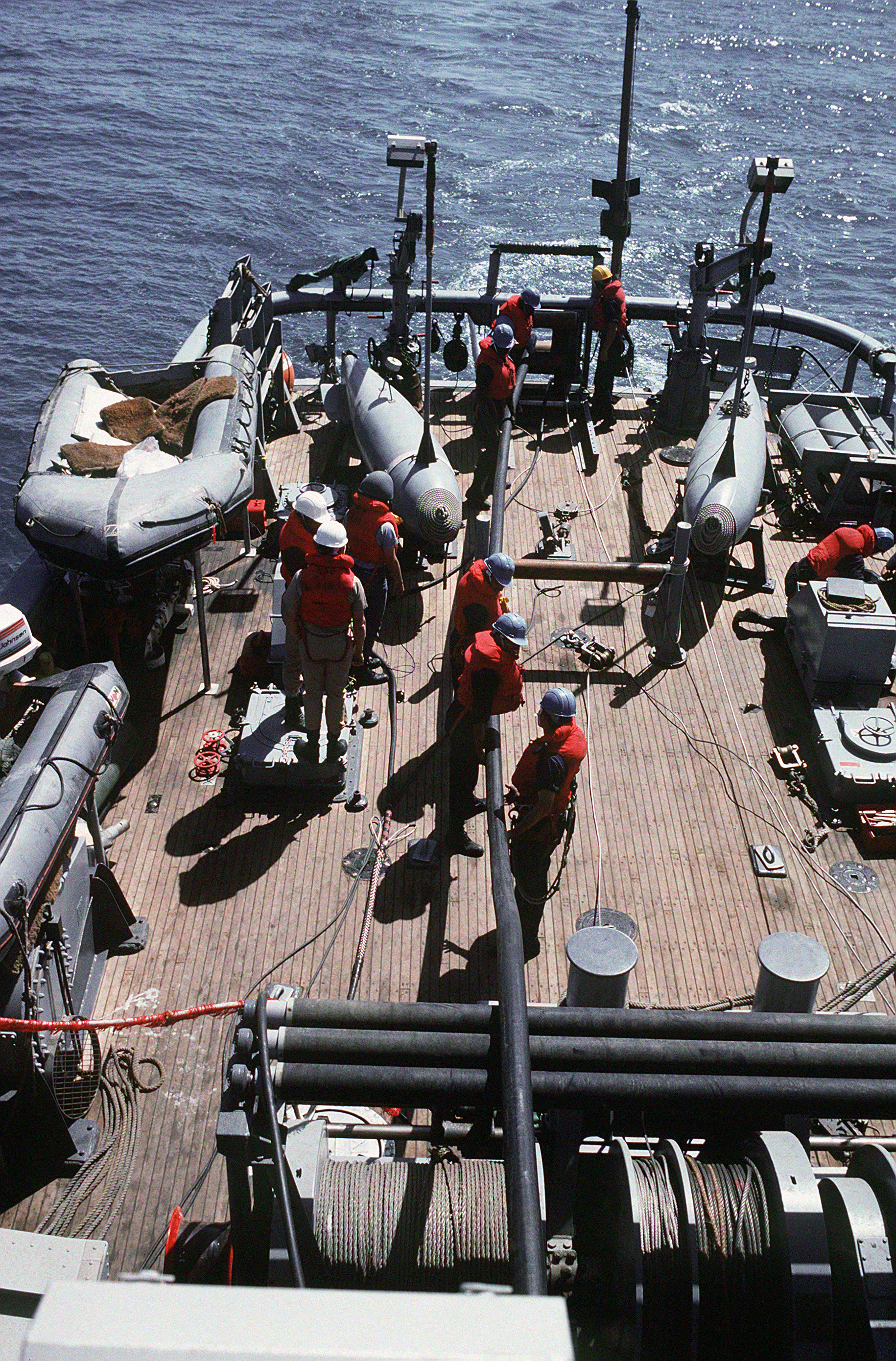 Crew members deploy a minesweeping cable from the fantail of the ocean minesweeper USS ILLUSIVE (MSO 448) in the Persian Gulf.